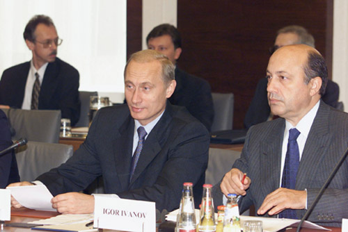 BRUSSELS. The European Union - Russia summit. President Vladimir Putin and Foreign Minister Igor Ivanov.